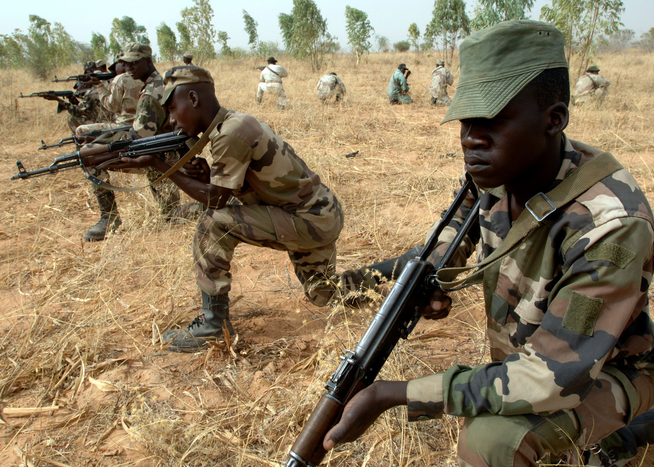 Maradi, Niger. Nigerien army soldiers from the 322nd Parachute Regiment practice field tactics during combat training facilitated by U.S. Army Soldiers during exercise Flintlock 2007. The multi-national exercise, which is part of the U.S. State Department's Trans-Sahara Counterterrorism Partnership, is an ongoing and long standing military-to-military relationship between Niger and the U.S. that provides an interactive exchange of military, linguistic and intercultural skills for both.